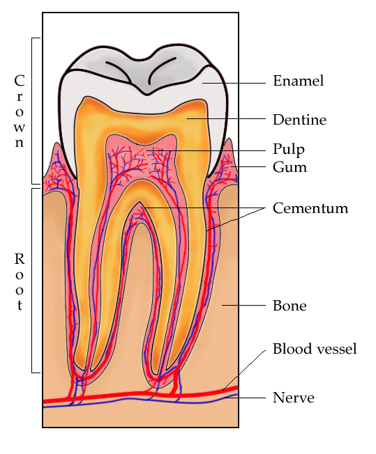 Cross section showing parts of tooth.